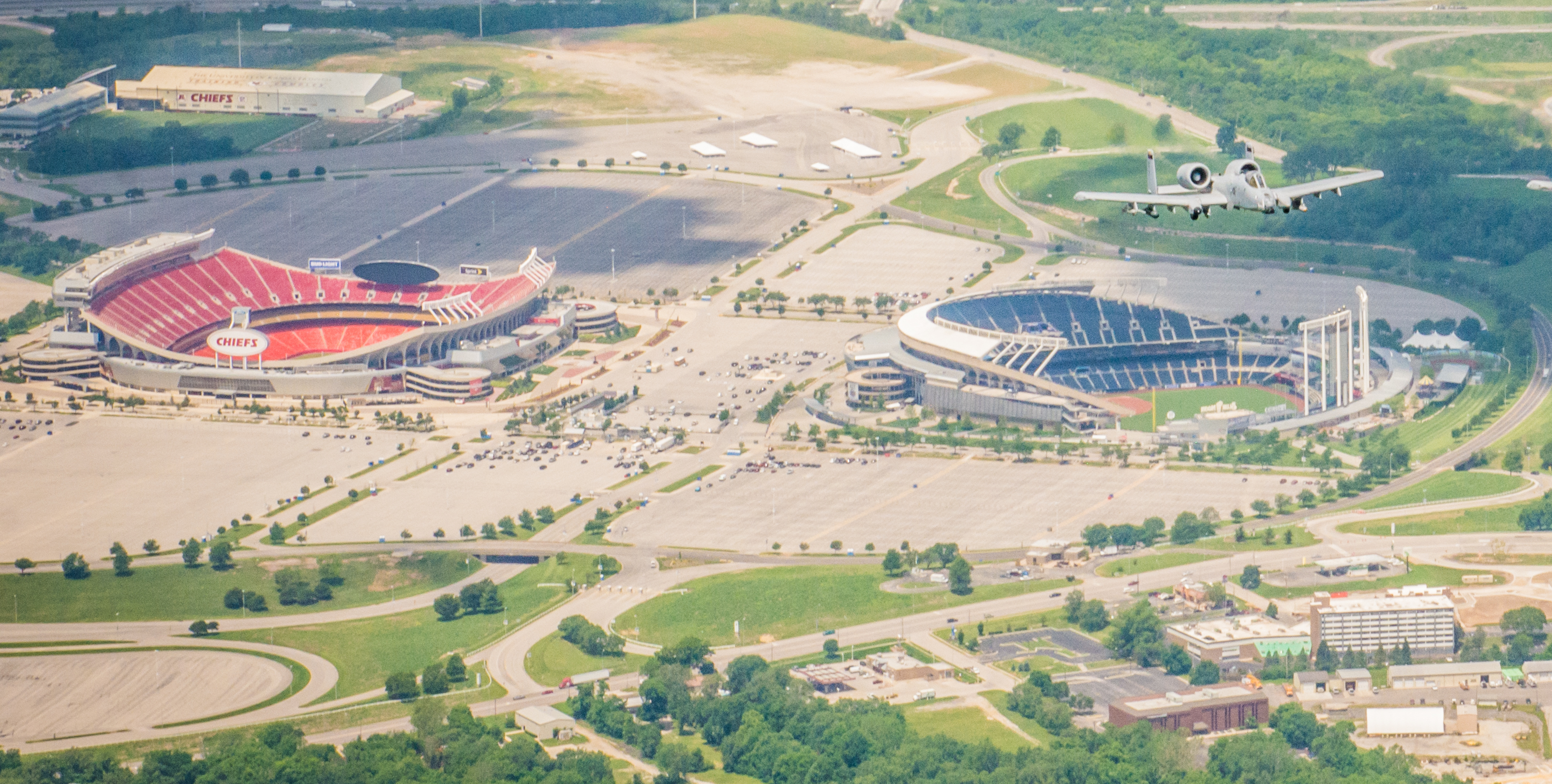 An A-10 Thunderbolt II aircraft, assigned to the 442nd Fight Wing, Air Force Reserve Command, flying over Arrowhead and Kauffman Stadiums, during a training sortie above Kansas City, Mo., June 2, 2017. (U.S. Air National Guard photo by Staff Sgt. Patrick Evenson)